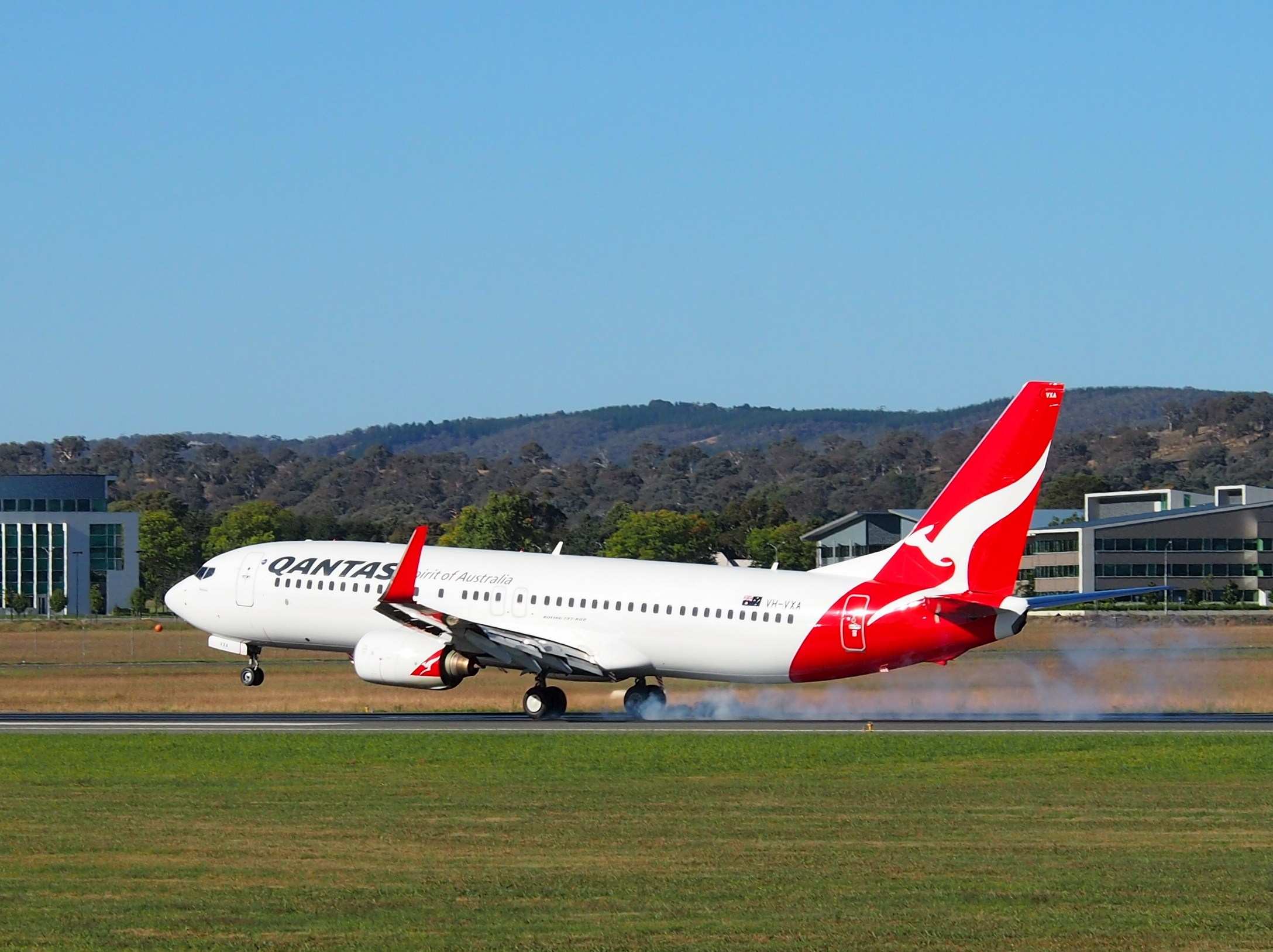 Qantas Boeing 737 VH-VXA landing at Canberra Airport in March 2013 Other photographs in this sequence : File:VH-VXA landing at Canberra Airport in March 2013 2.jpg